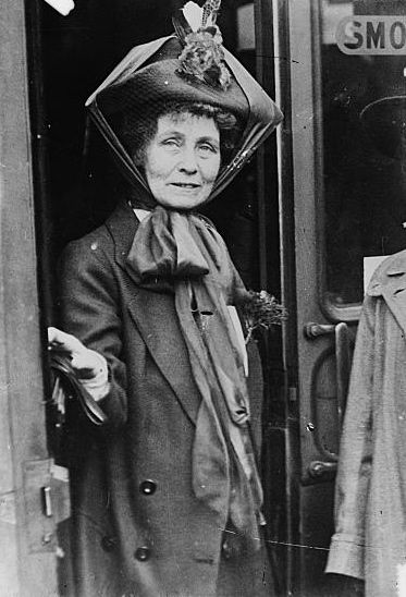 Emmeline Pankhurst, British suffragist